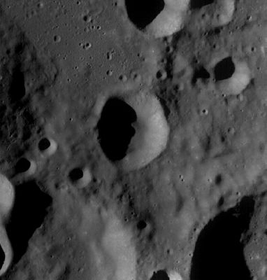 L. Clark lunar crater LROC image WAC No. M118470866ME (crater is at centre of image). Calibrated by LROC_WAC_Previewer.